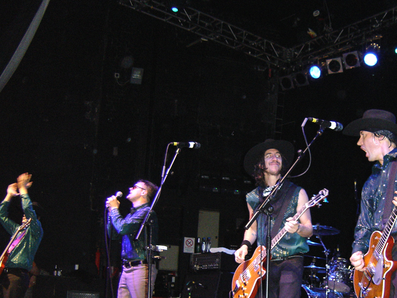 Me First and the Gimme Gimmes performing at Newcastle Carling Academy, Newcastle upon Tyne, England. Pictured: Joey Cape, Spike Slawson, Eric Melvin, and Scott Shiflett.